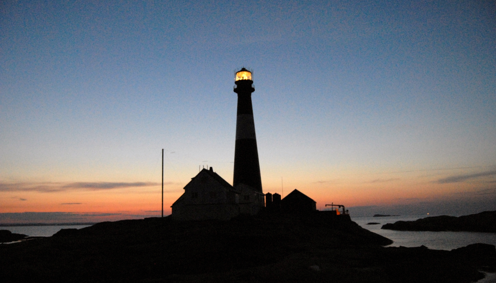 Færder fyr by night. Seen from south.